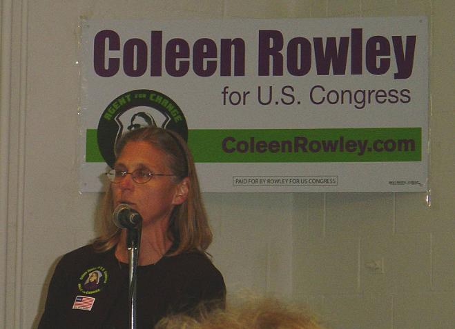 Coleen Rowley, wistleblower, former FBI agent, and former candidated for Minnesota's 2nd Congressional District in 2006, at a rally in Rosemount, MN, on 17 September 2006